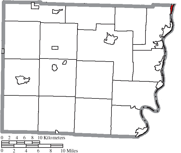 Map of the municipal and township boundaries of Belmont County, Ohio, United States, as of the 2000 census, with the location of the village of Yorkville highlighted. Township borders are shown only in unincorporated areas in order to differentiate incorporated and unincorporated areas more clearly.